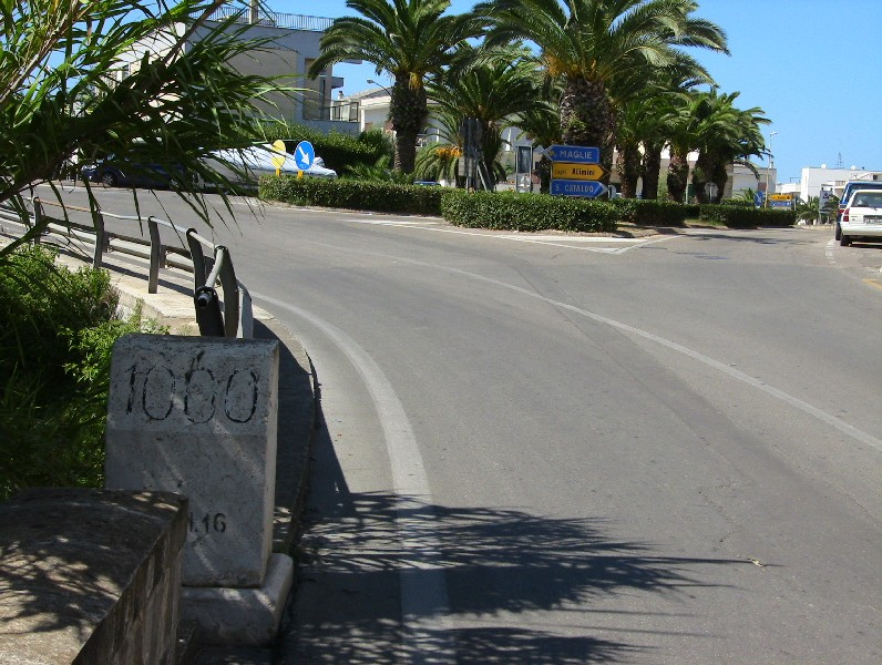 Milestone km 1000 on the SS16 road, in Otranto (Italy)